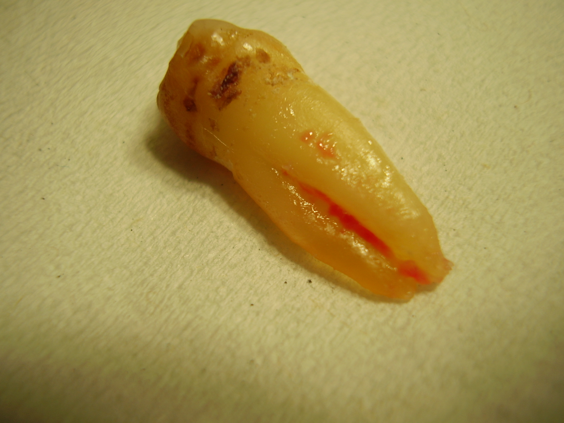 Zahn 34 - Anomalie: 2 Wurzeln; lower left human tooth number 4, with 2 roots